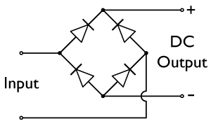 Alternate diagram for diode bridge circuit. This circuit image could be recreated using vector graphics as an SVG file. This has several advantages; see Commons:Media for cleanup for more information. If an SVG form of this image is available, please upload it and afterwards replace this template with vector version available|new image name.svg .